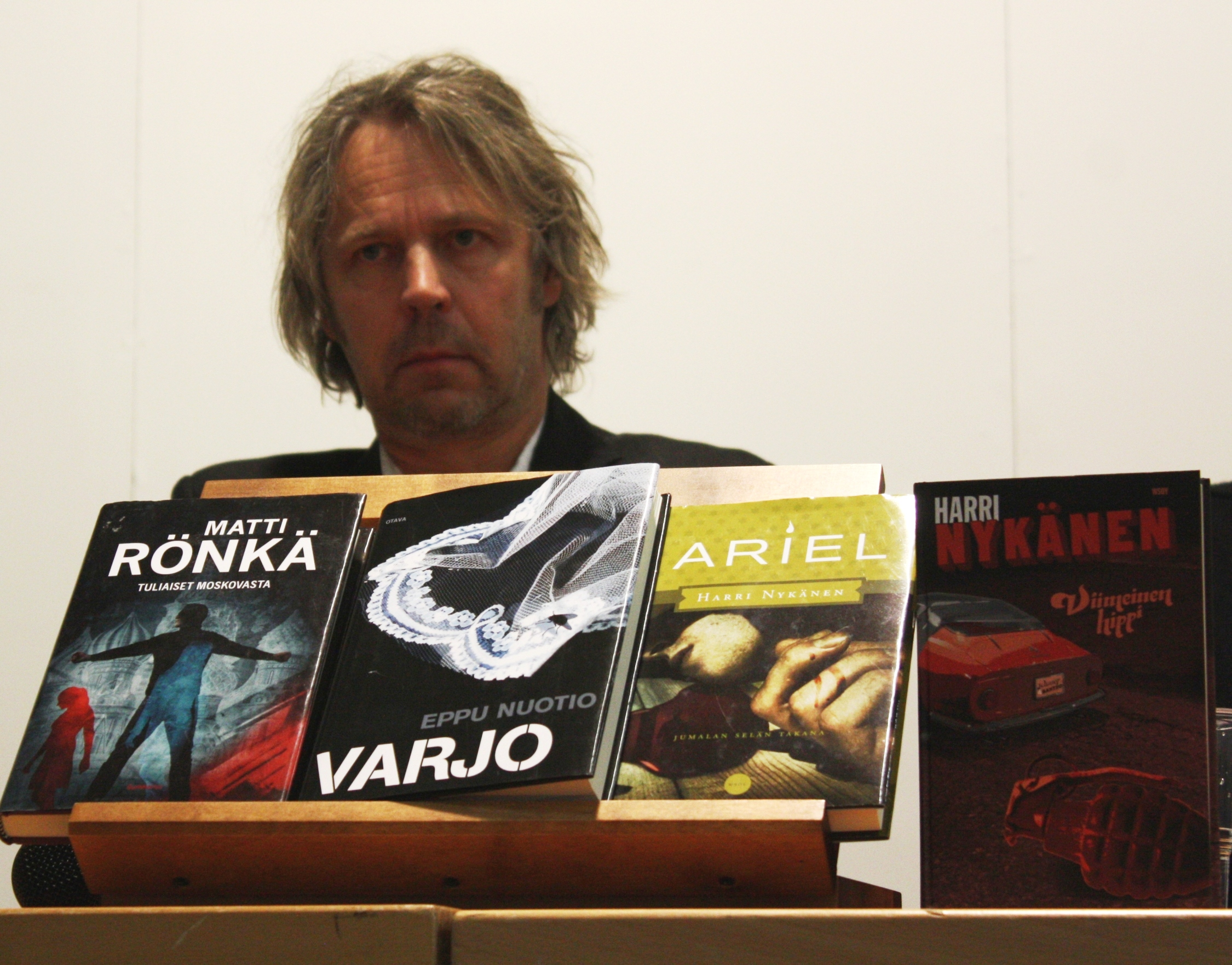 Finnish crime writer Harri Nykänen at Helsinki Book Fair 2009